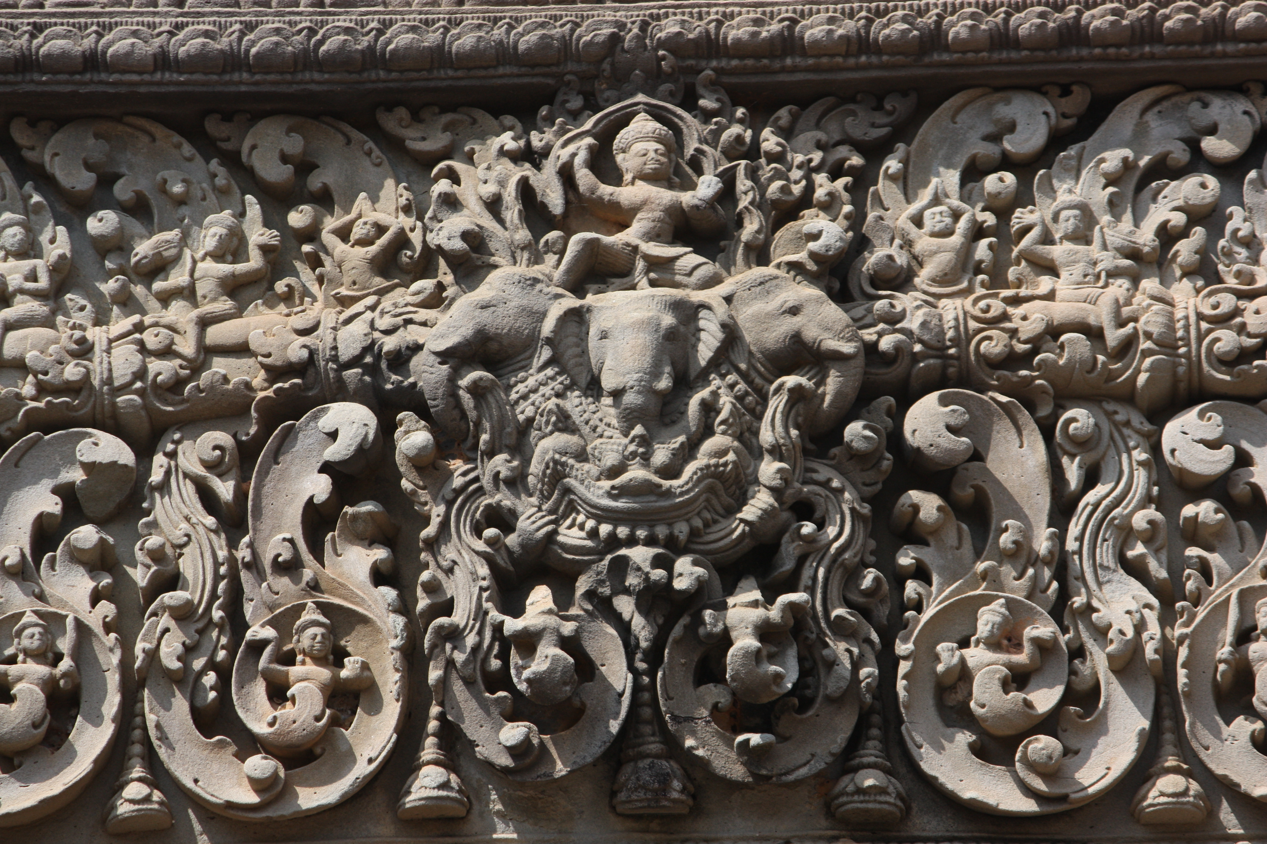 Indra on Airavata, lintel at East Mebon. Own work November 2010.